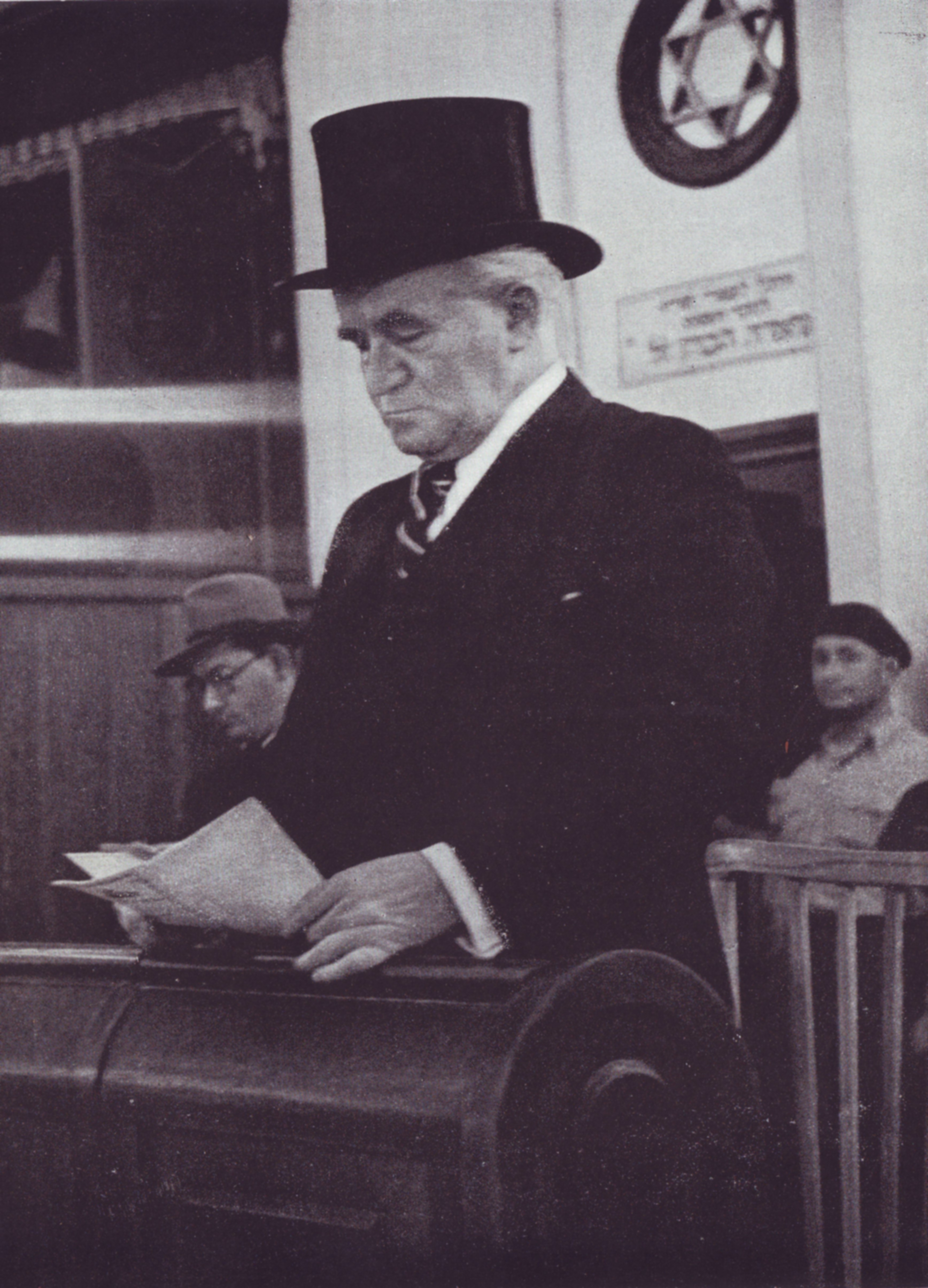 David Ben Gurion as Prime Minister at a prayer on Independence Day in Yeshurun Synagogue in Jerusalem